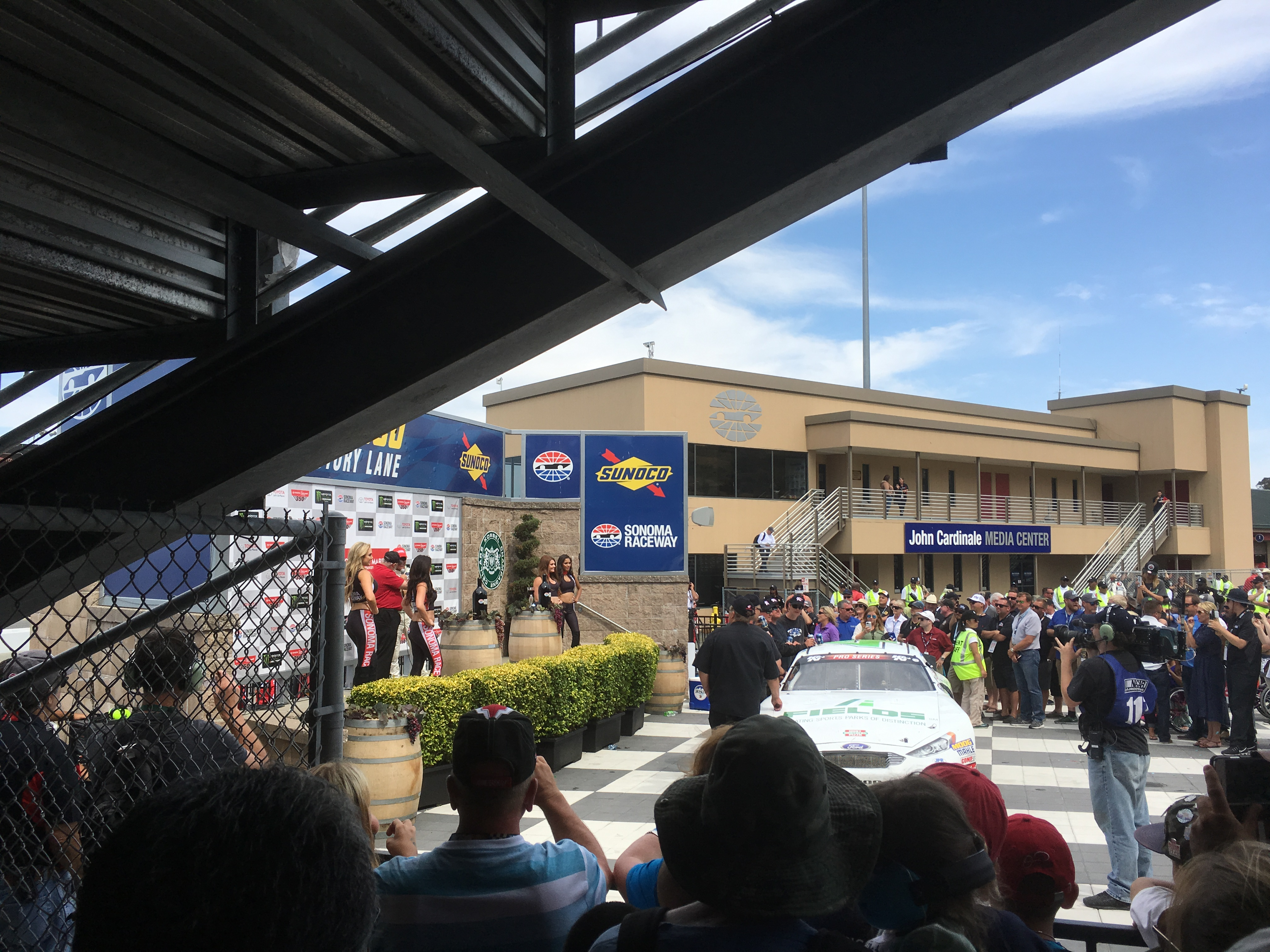 Kevin Harvick in Victory Lane after winning the 2017 Carneros 200.